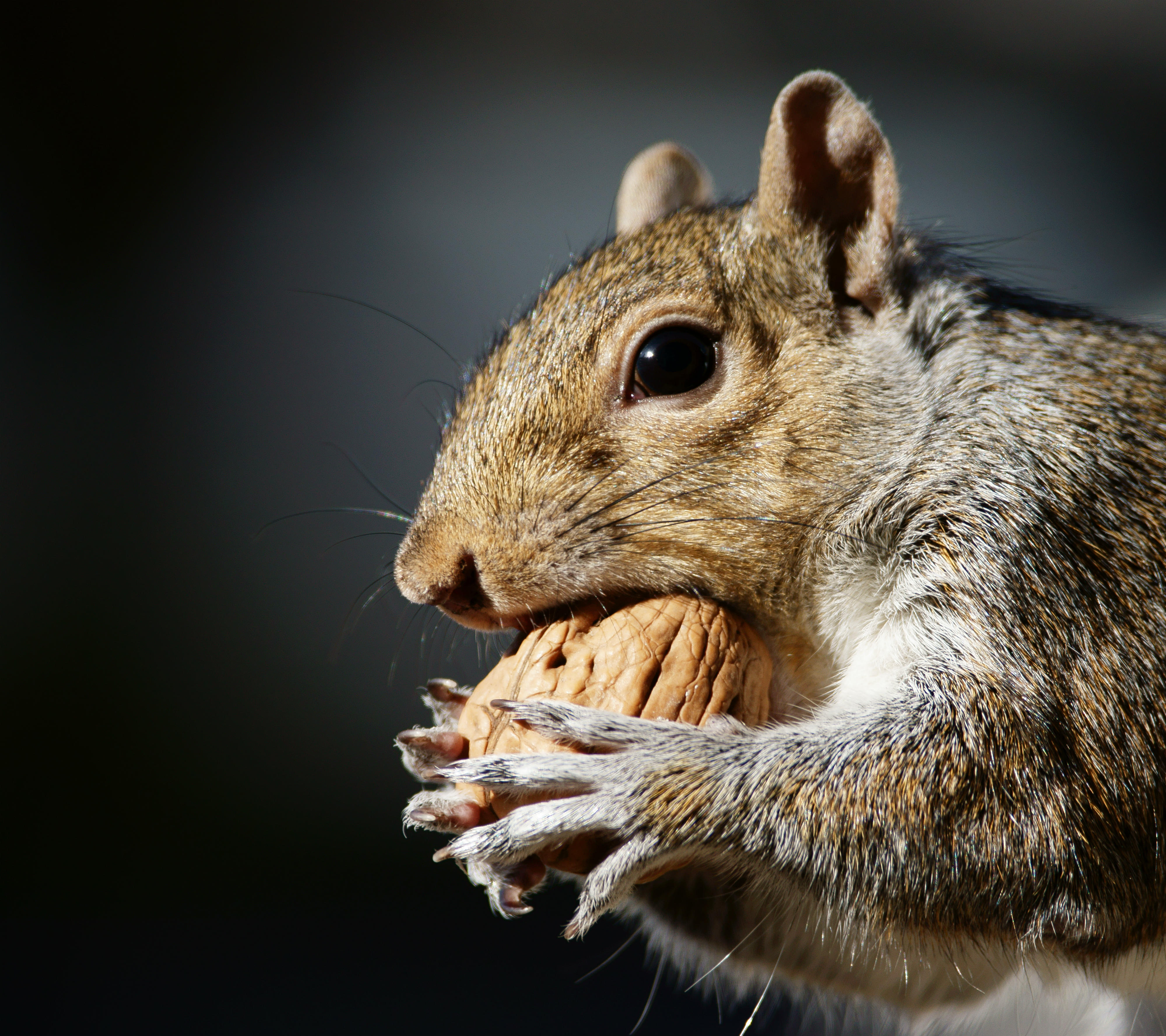 'Sammy' returned for the other nut.